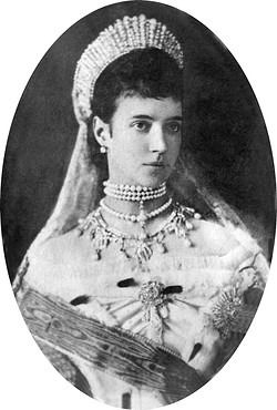 Empress Marie Feodorovna of Russia, 1885